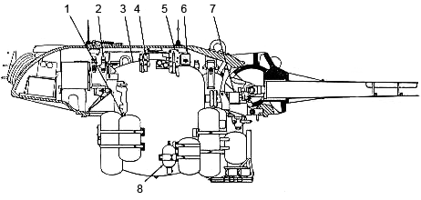 M67 flame thrower tank turret inside arrangement